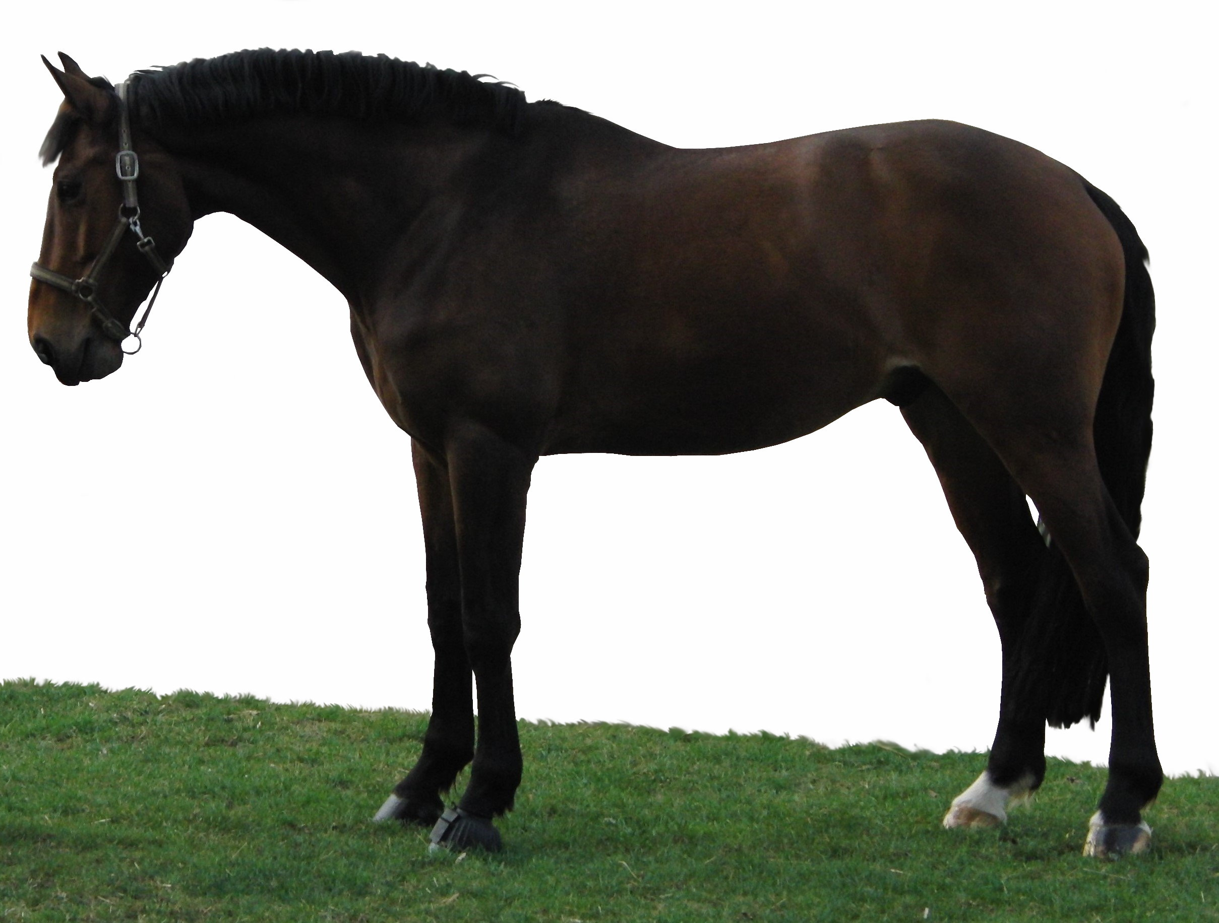 Newton des Tilles, selle français gelding of 10 years old